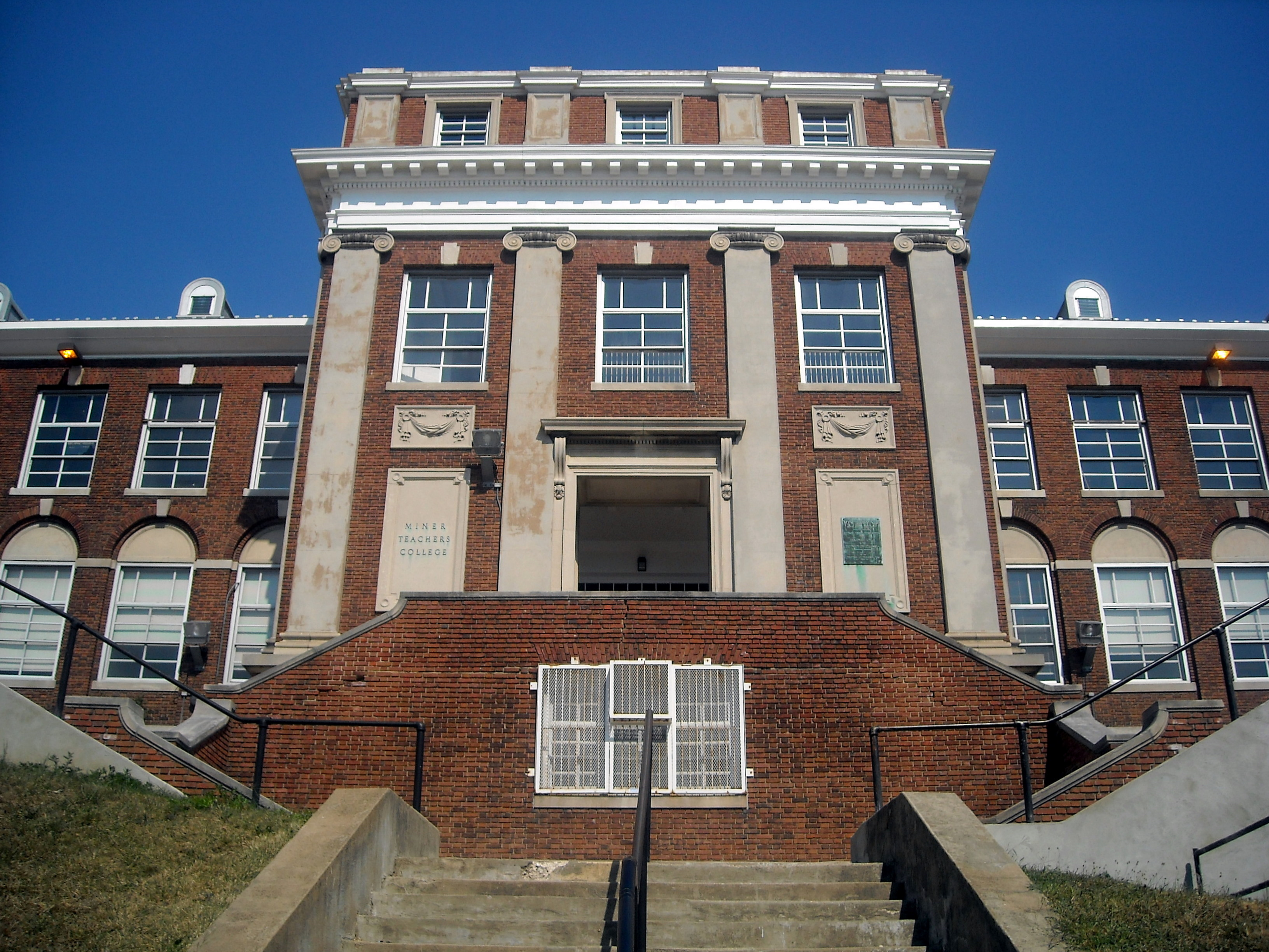 Miner Teachers College (also known as Miner Building - Howard University, Miner Normal School, Miner Normal School for Colored Girls) located at 2565 Georgia Avenue, NW in Washington, D.C. Completed in 1914, the Colonial Revival building was designed by Leon E. Dessez and Snowden Ashford. It's listed on the National Register of Historic Places.